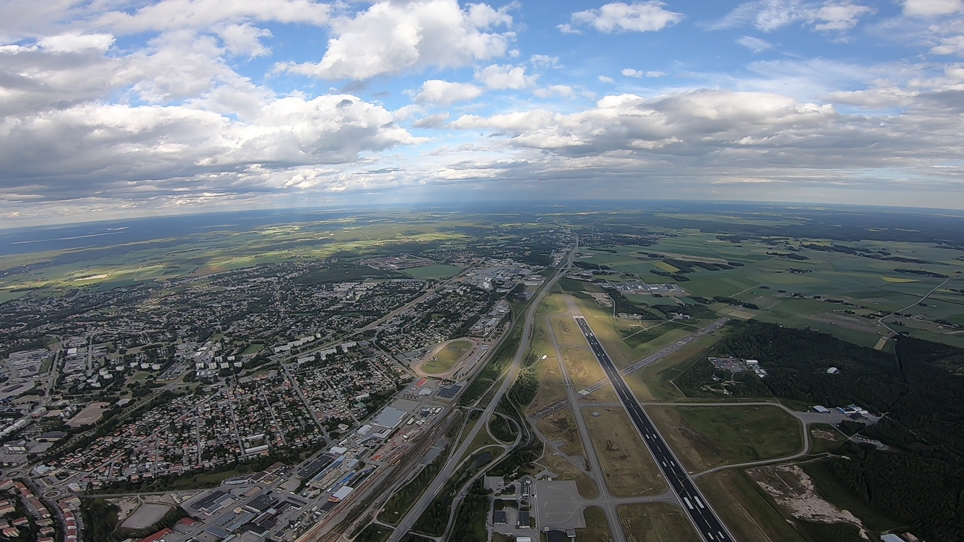 Pori airport.